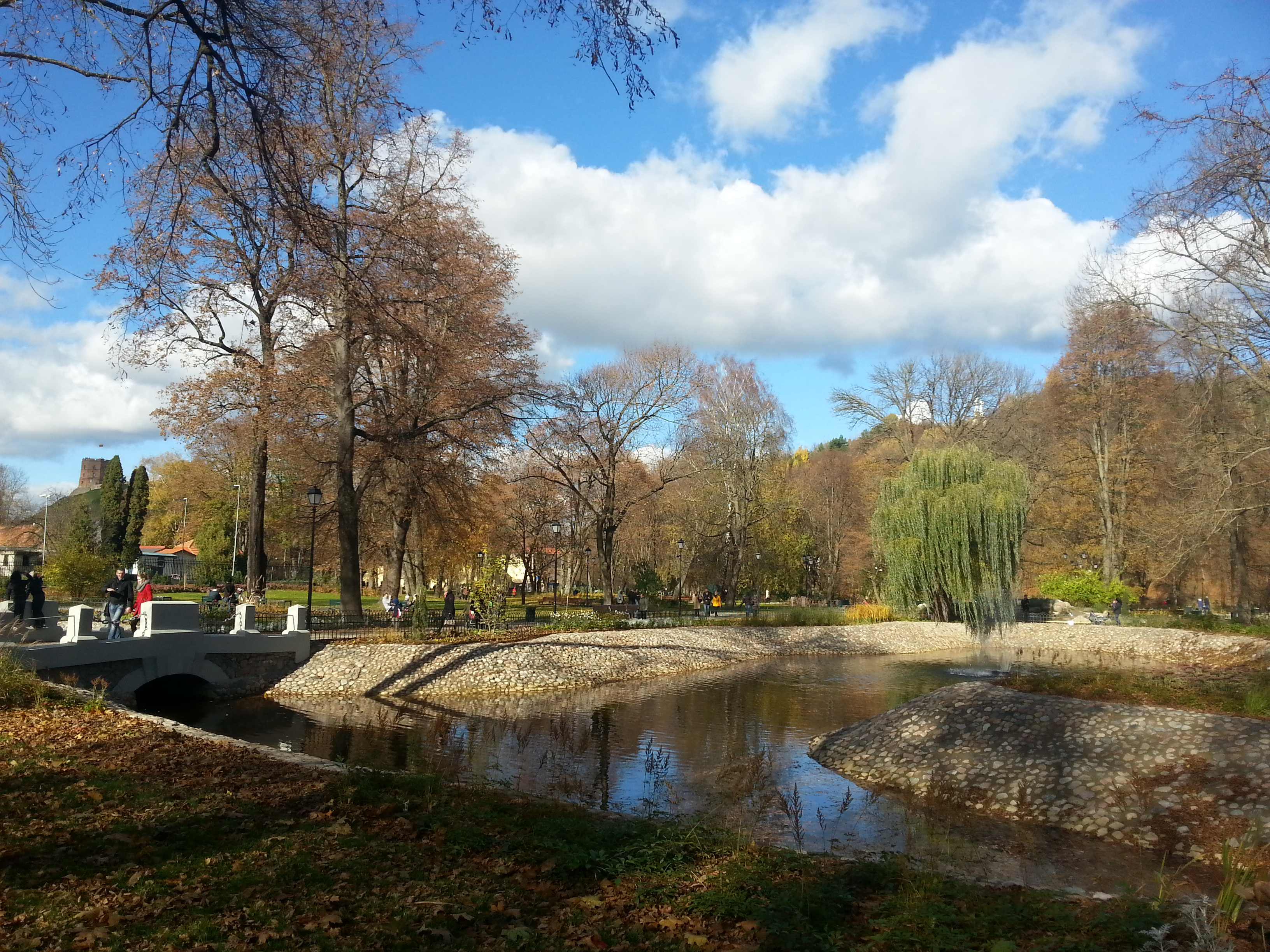 Photo of Bernardinai garden in Vilnius.